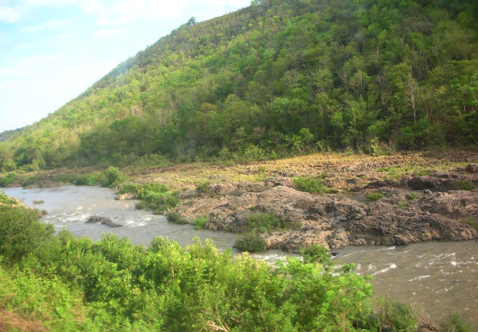 Yom river and a mountain of the Phi Pan Nam Range, Long district, Phrae Province, Thailand